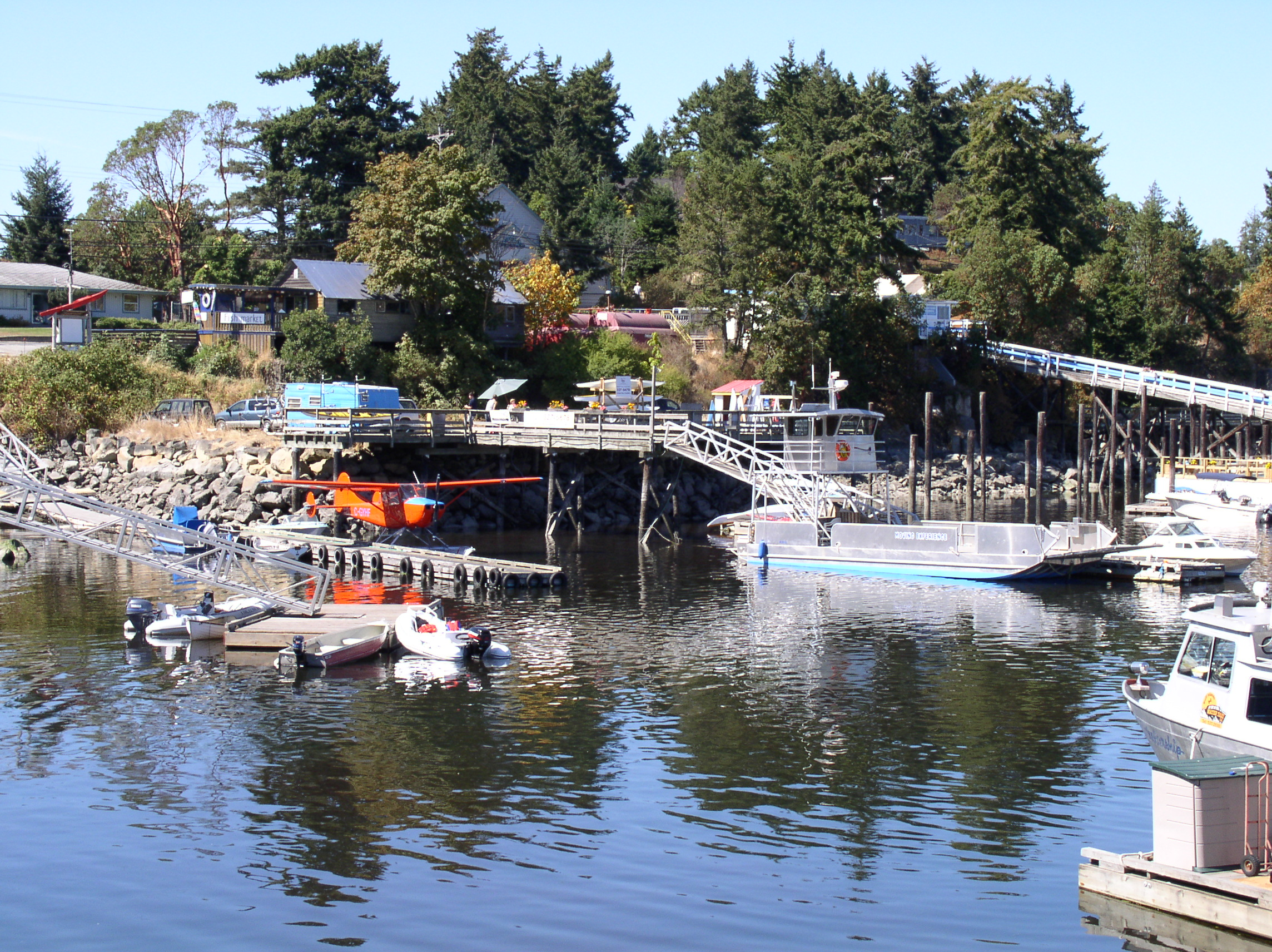 A view of Ganges Harbour on Saltspring Island and it is a good place for a vacation